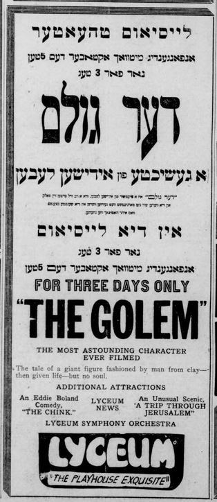 American newspaper advertisement (text only) for the German film Der Golem, wie er in die Welt kam (The Golem: How He Came into the World) (1920), released in the United States under the title The Golem, on page 11 of the October 5, 1921 Duluth Herald. The upper portion of the ad is in Yiddish and the lower portion in English, and both portions note the showing of the film at the Lyceum Theatre in Duluth, Minnesota. There is a short review of the 1920 film along with a film still on page 13 of the newspaper. This ad is in the public domain as it does not include any images of the film, which is still (as of this date) under copyright in Germany.